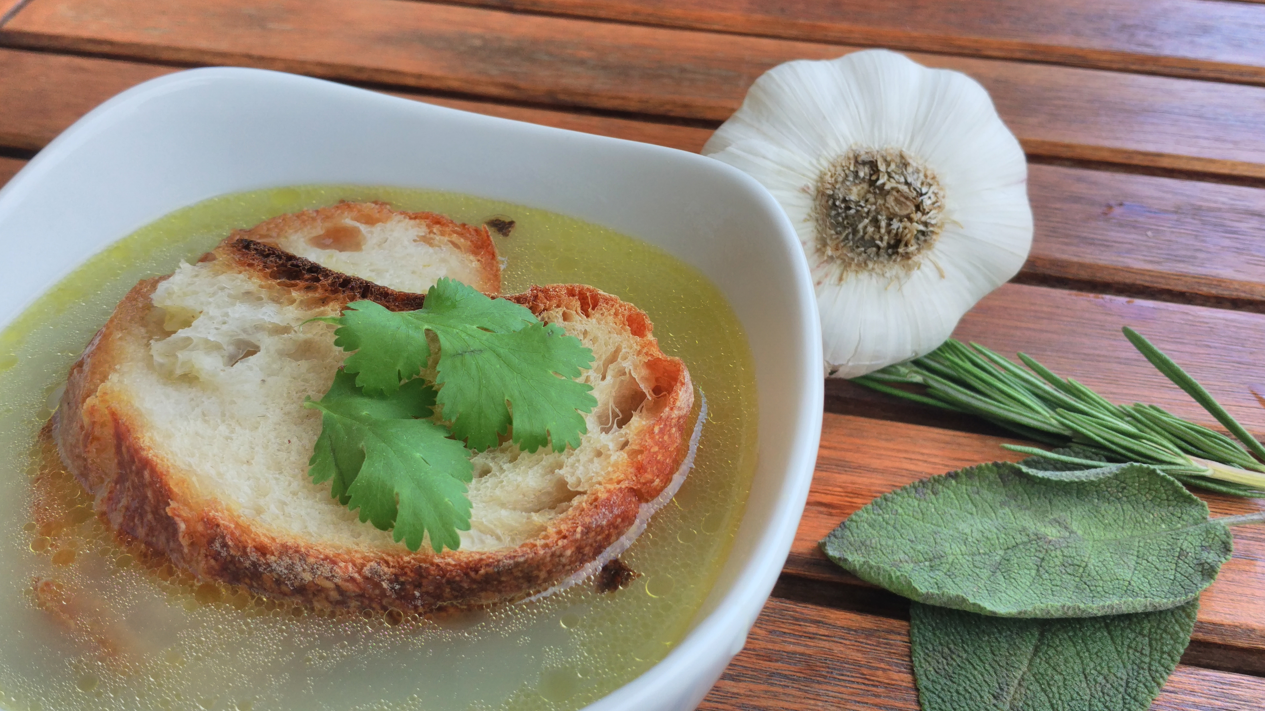 aigo boulido, a provencal garlic-based soup